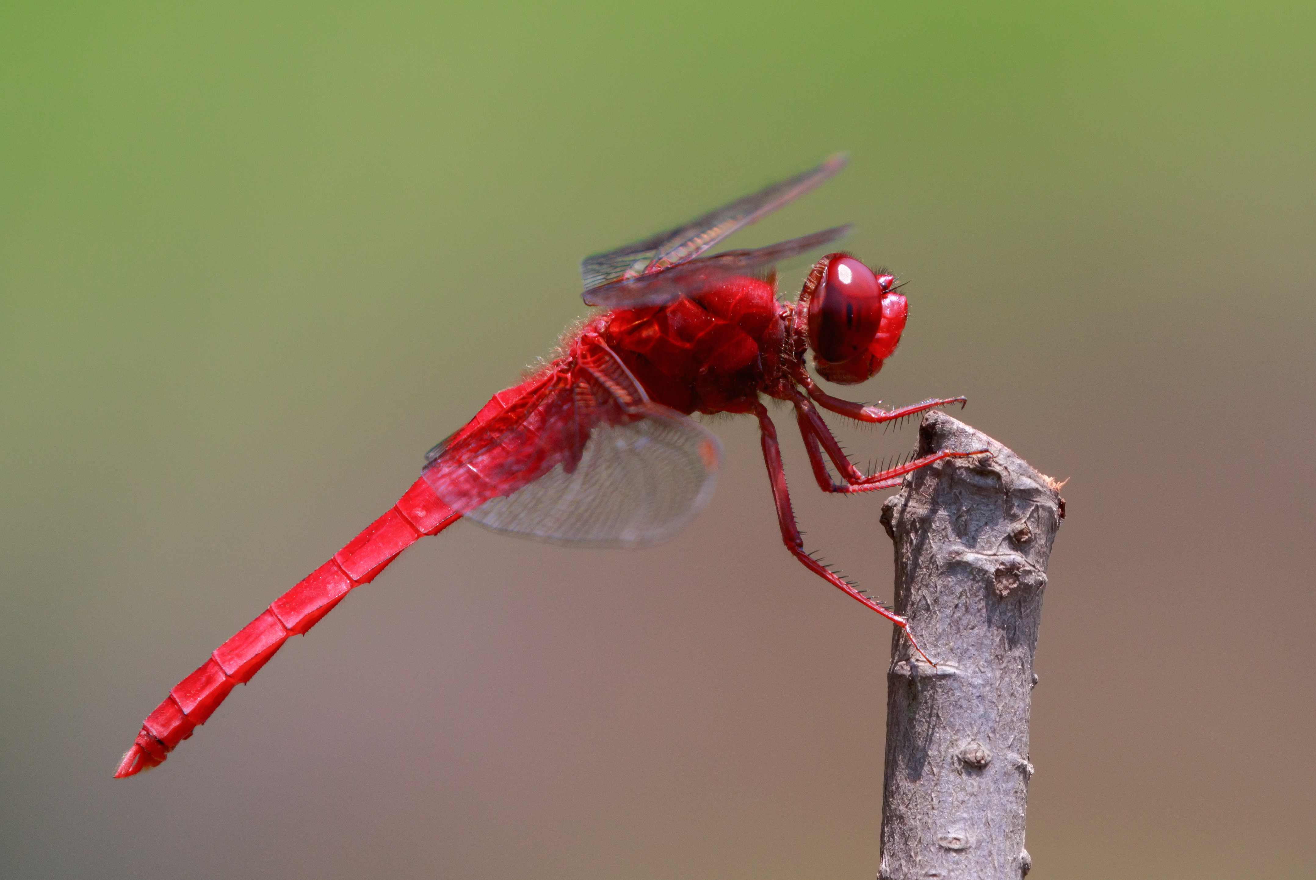 Scarlet skimmer at Keitakuen in Osaka.